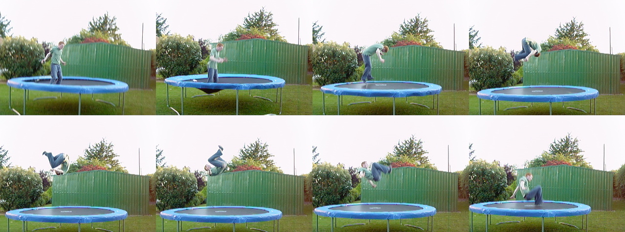 A youth performing a somersault on a trampoline. The shots were taken at 1/6.3 second intervals.